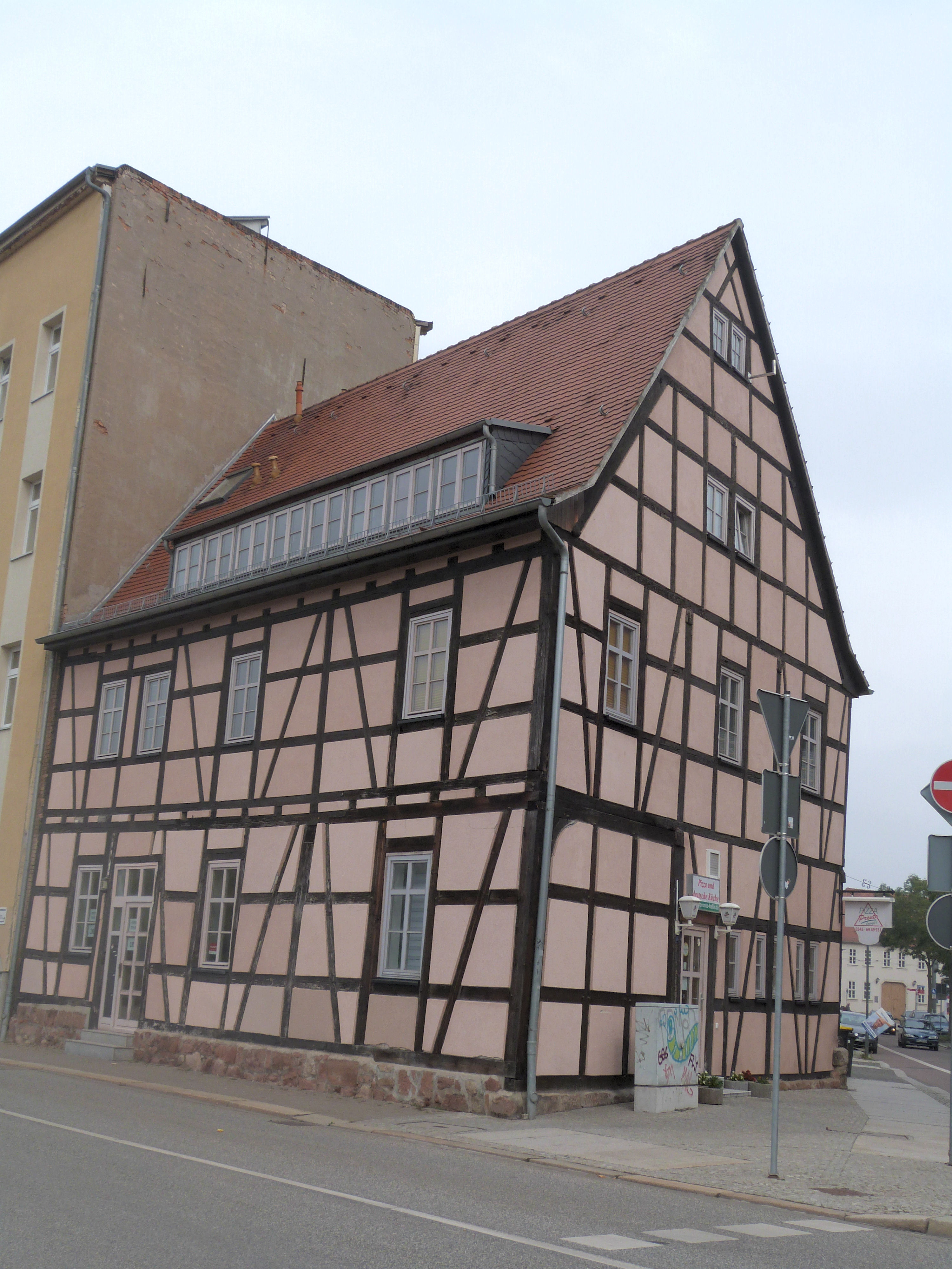 House No. 18 Herrenstrasse in Halle (Saale)